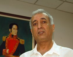 Omar Emboirik Ahmed, Sahrawi Republic ambassador to Venezuela (2008-2012)